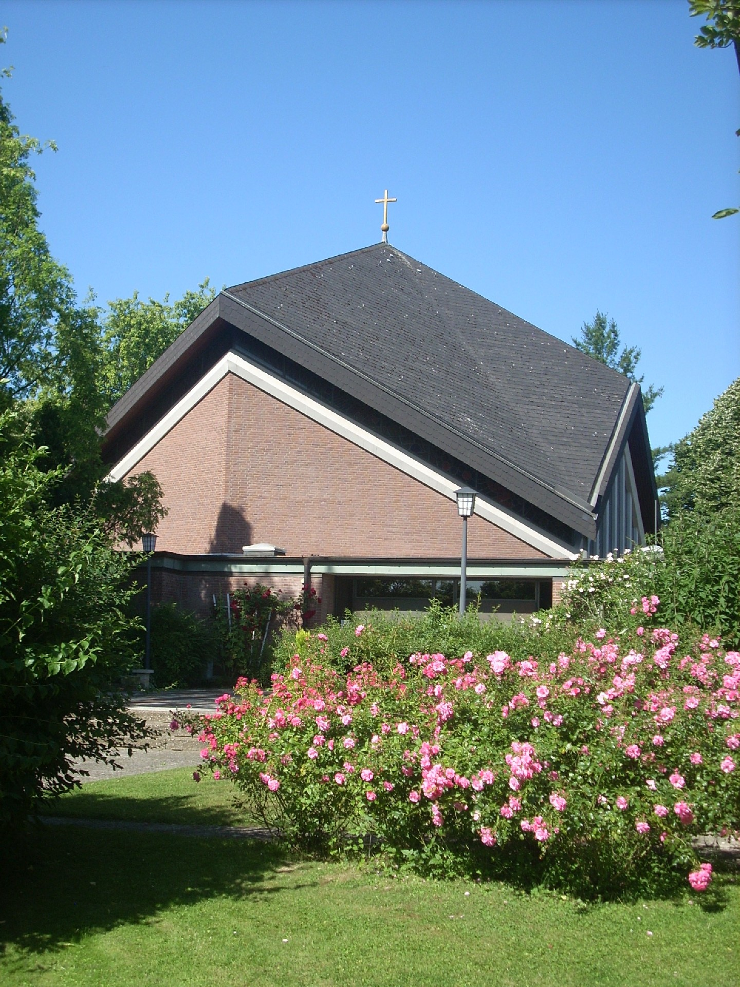 St. Altfried catholic church, Hildesheim-Ochtersum, view from south